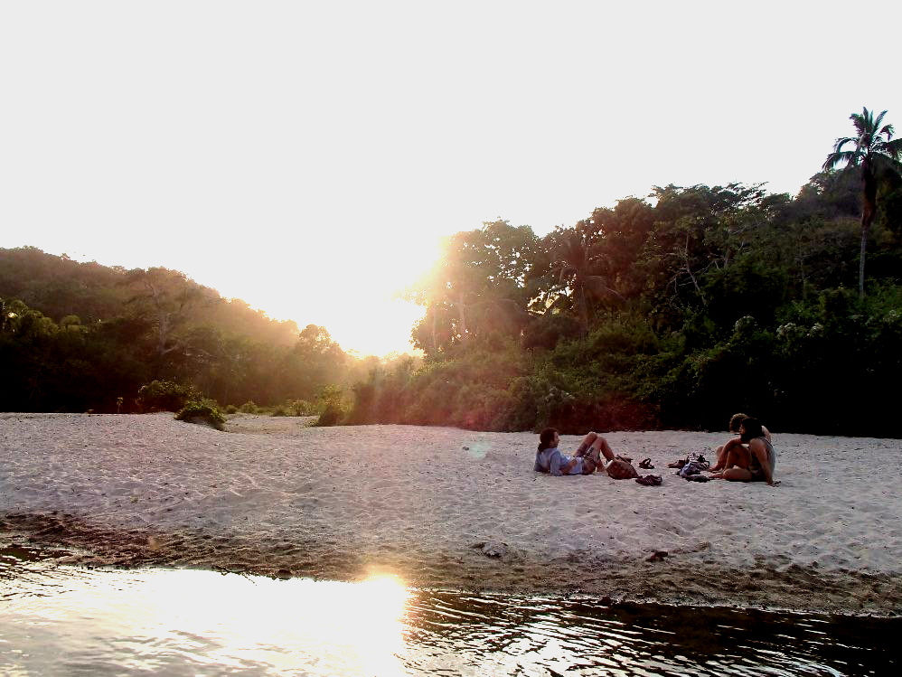 It springs, soft to move, descends from the mountain range, low pure and crystalline, with no more destiny than to flow into a sea of turquoise creations, heavenly works of La Mar .. Maybe I speak of the PALOMINO RIVER ... also, of beings who seek a discovery In the Magical and Ancestral lands of the Sierra Nevada de Santa Marta Esta fotografía fue tomada en el municipio colombiano con código 44090.